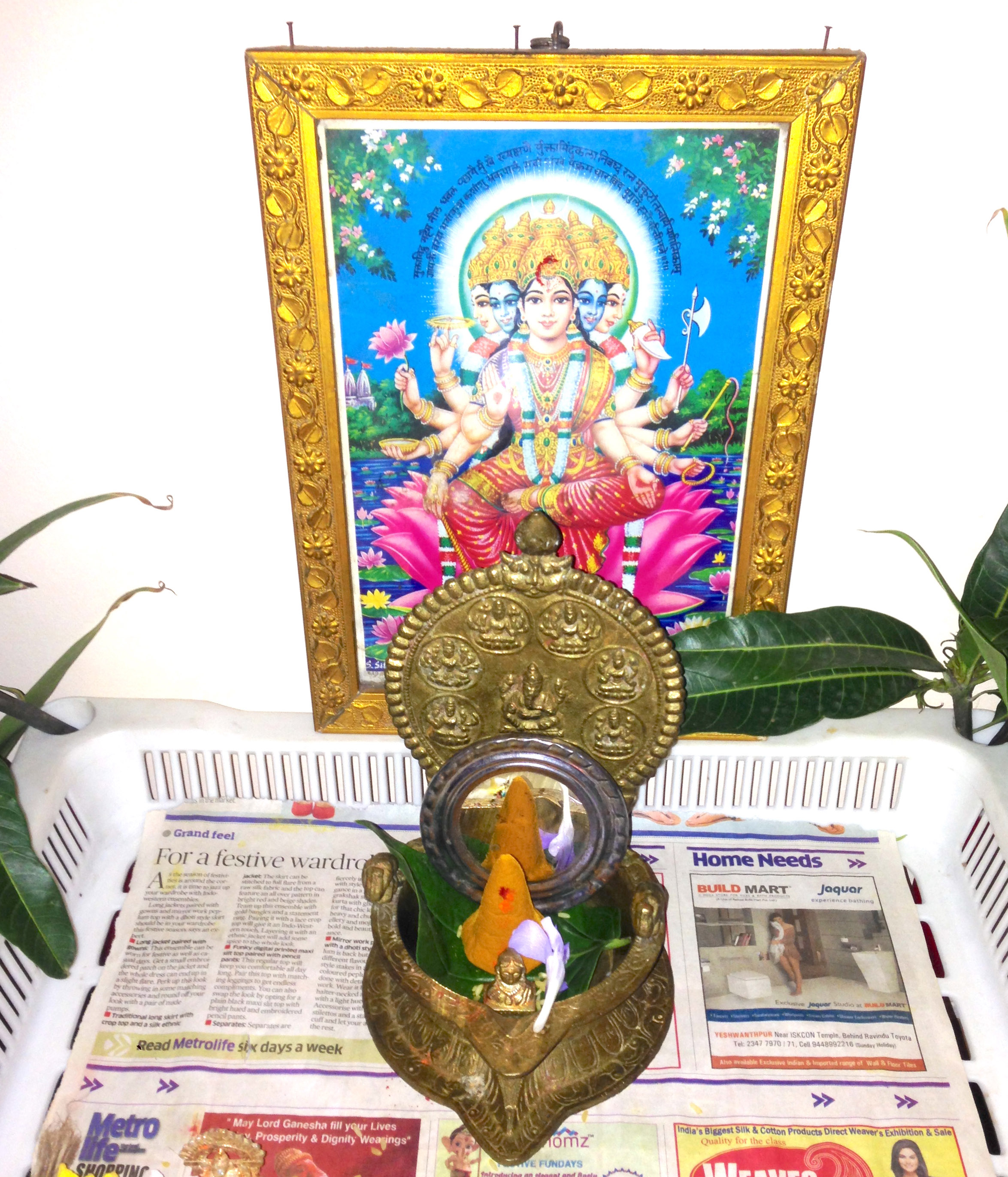 Gowri Habba The main Gowri idol used in the Swarna (Suvarna, or Golden) Gowri Vratha is made of turmeric, and the shape represents a mountain. This is made by hand and consecrated as per protocol in the initial stage of the Vratha, before offerings are made in worship. In front of the turmeric Gowri a Golden Gowri made of metal is visible. This is often substituted by a clay Gowri, vividly coloured, sold along with clay idols of Ganesha. The picture representing Gowri or Devi is for decorative purpose. Mango leaves or Banana leaves are used to decorate the worship space. As per protocol, footwear must be removed outside the door before entering a room where this type of worship is in progress. By the end of the Swarna Gowri Vratha, the turmeric Gowri is covered by flowers and barely visible.